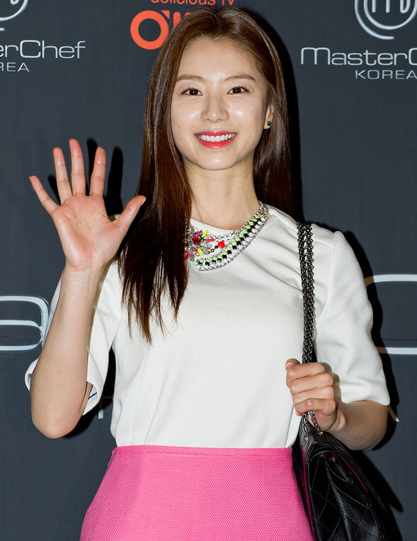 Park Soo Jin at the press conference of MasterChef korea, in April 2012